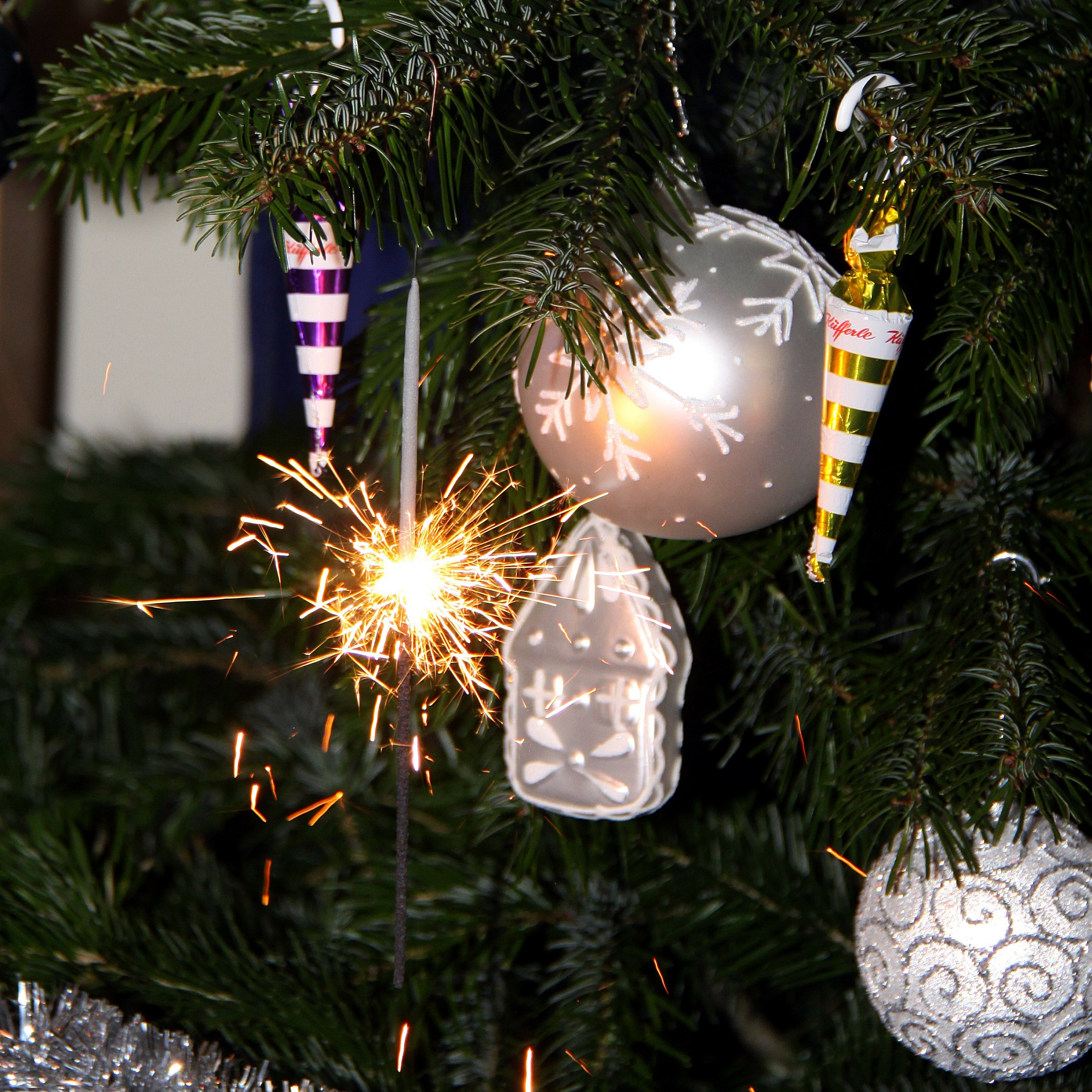 Christmas baubles and sparkler.